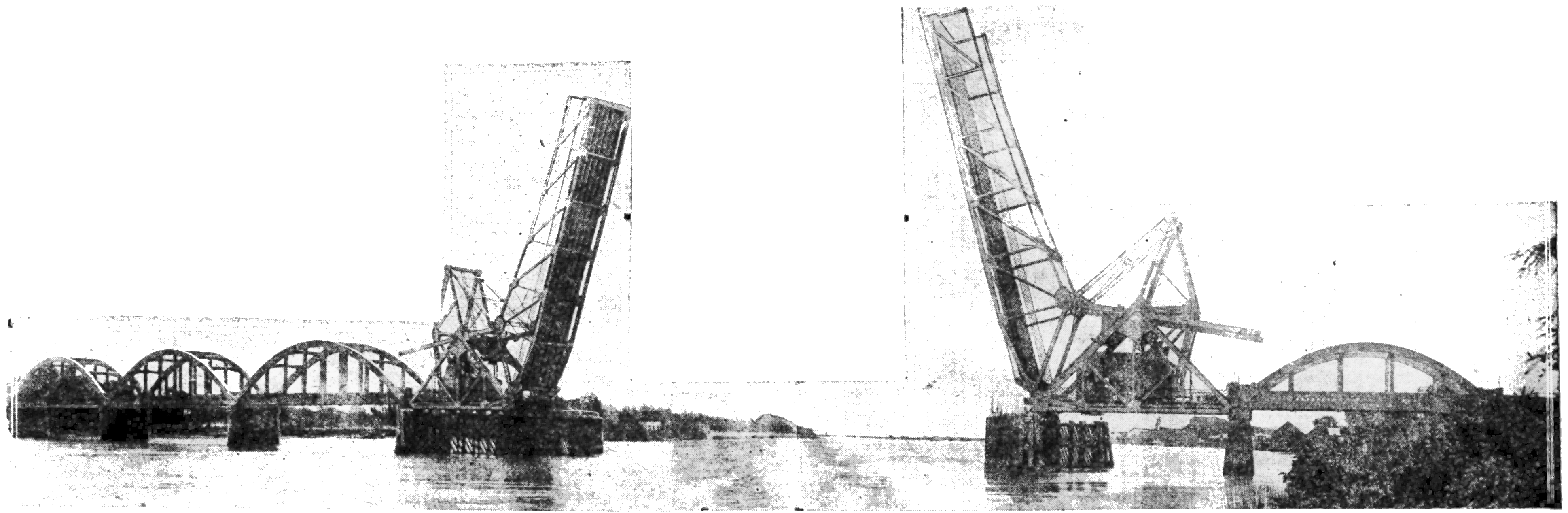 Photograph of double-leaf bascule bridge at Rio Vista, California. Newspaper photograph published in an article detailing the opening of the bridge.